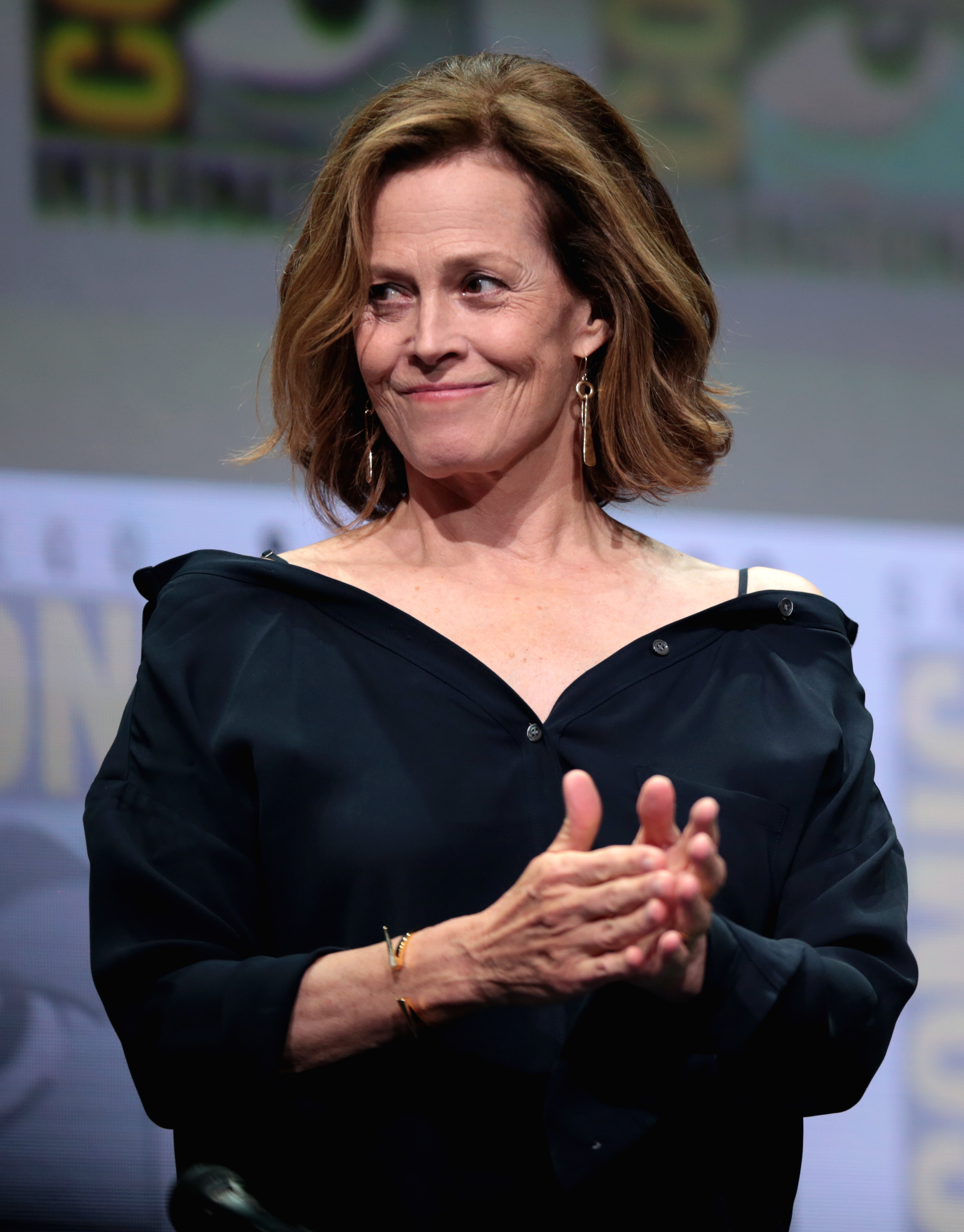 Sigourney Weaver speaking at the 2017 San Diego Comic Con International, for "Marvel's The Defenders", at the San Diego Convention Center in San Diego, California.